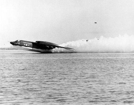 Martin P6M-2 "SeaMaster" flying boat taking off